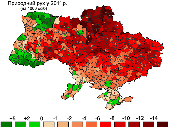 Natural population growth in Ukraine, 2011